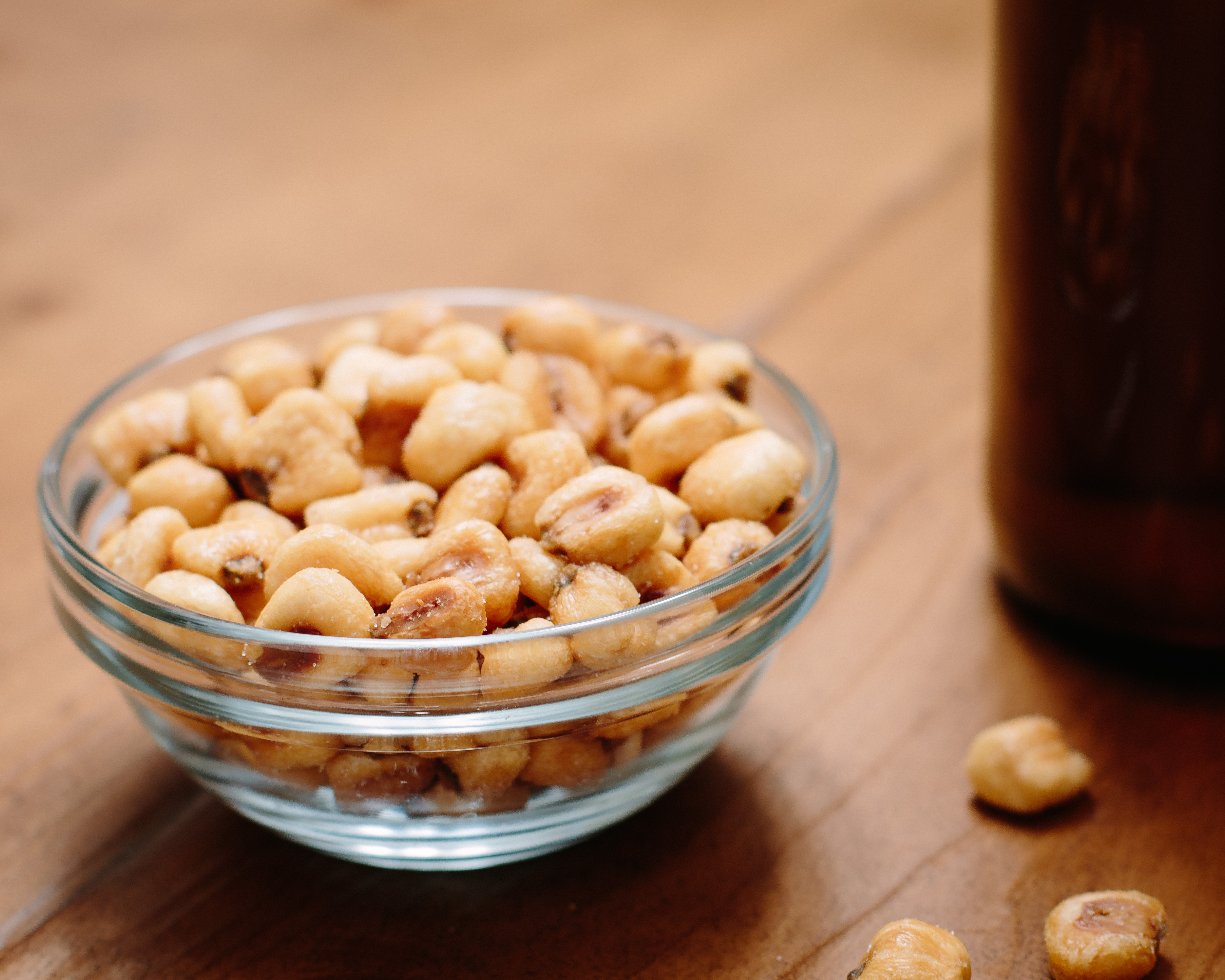 A shot of original flavor Corn Nuts from Kraft foods.